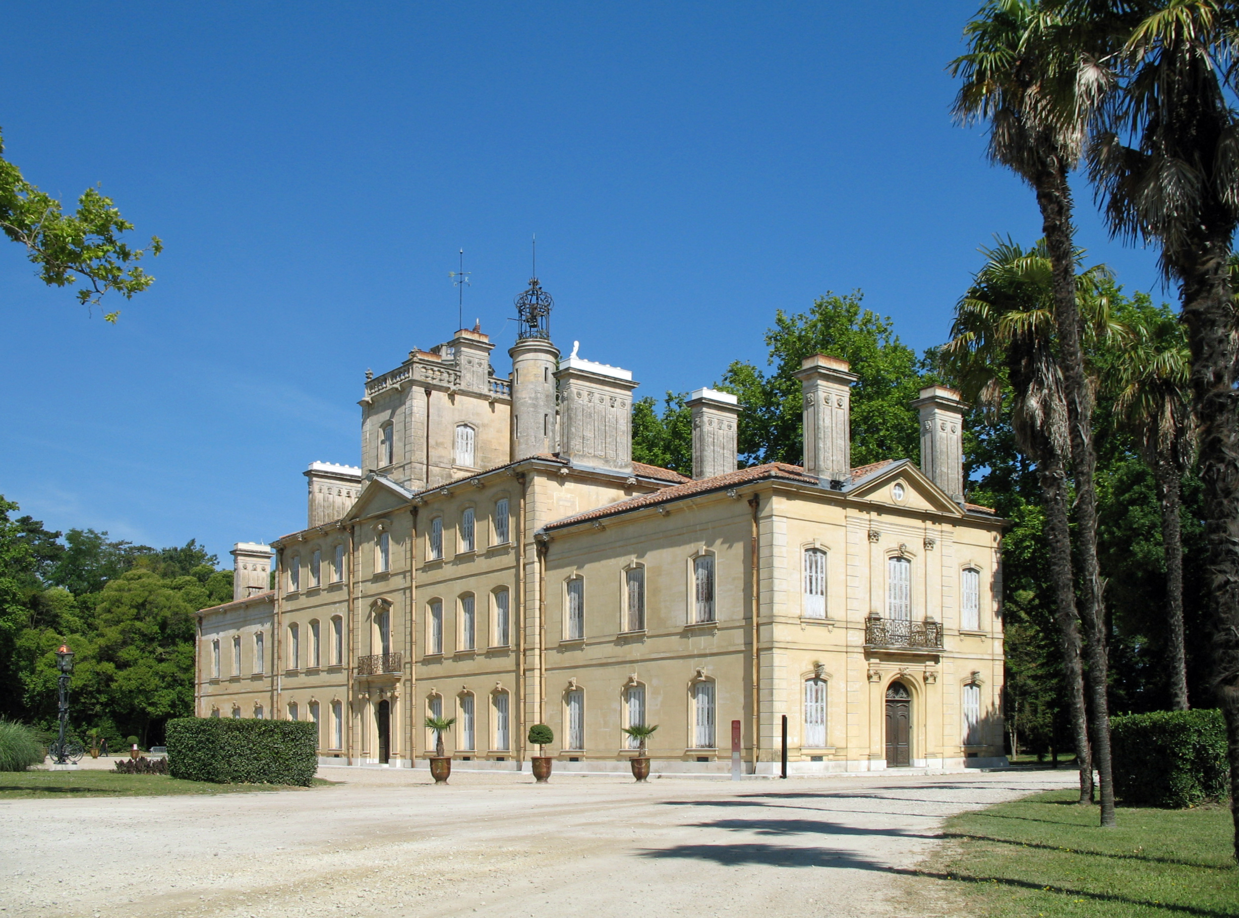 Les Saintes-Maries-de-la-Mer (département Bouches-du-Rhône, France): Avignon castle